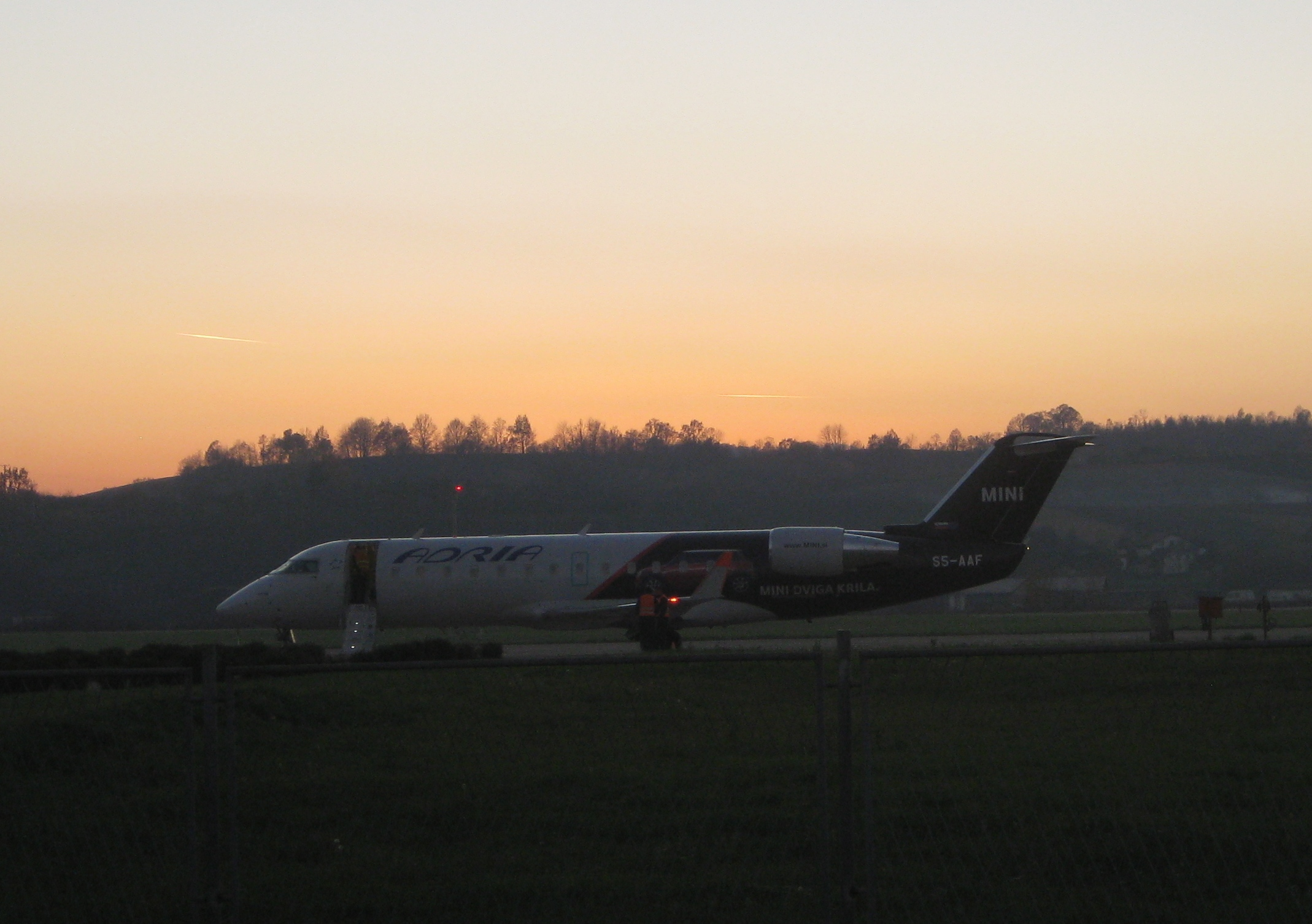 Adria Airways CRJ 200 at Banja Luka airport, November 2010